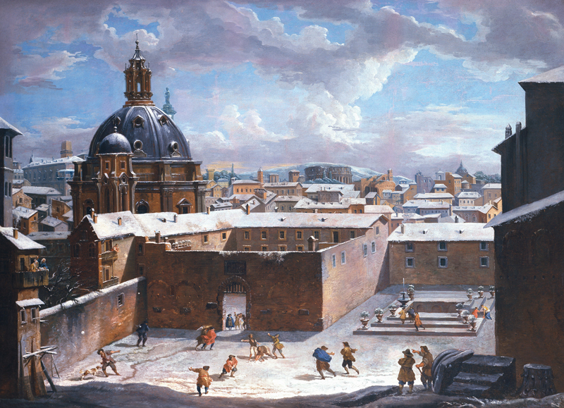 Veduta di Roma innevata (Fondazione Sorgente Group)